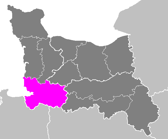 Maps of arrondissements and cantons of France: Arrondissement d Avranches.PNG